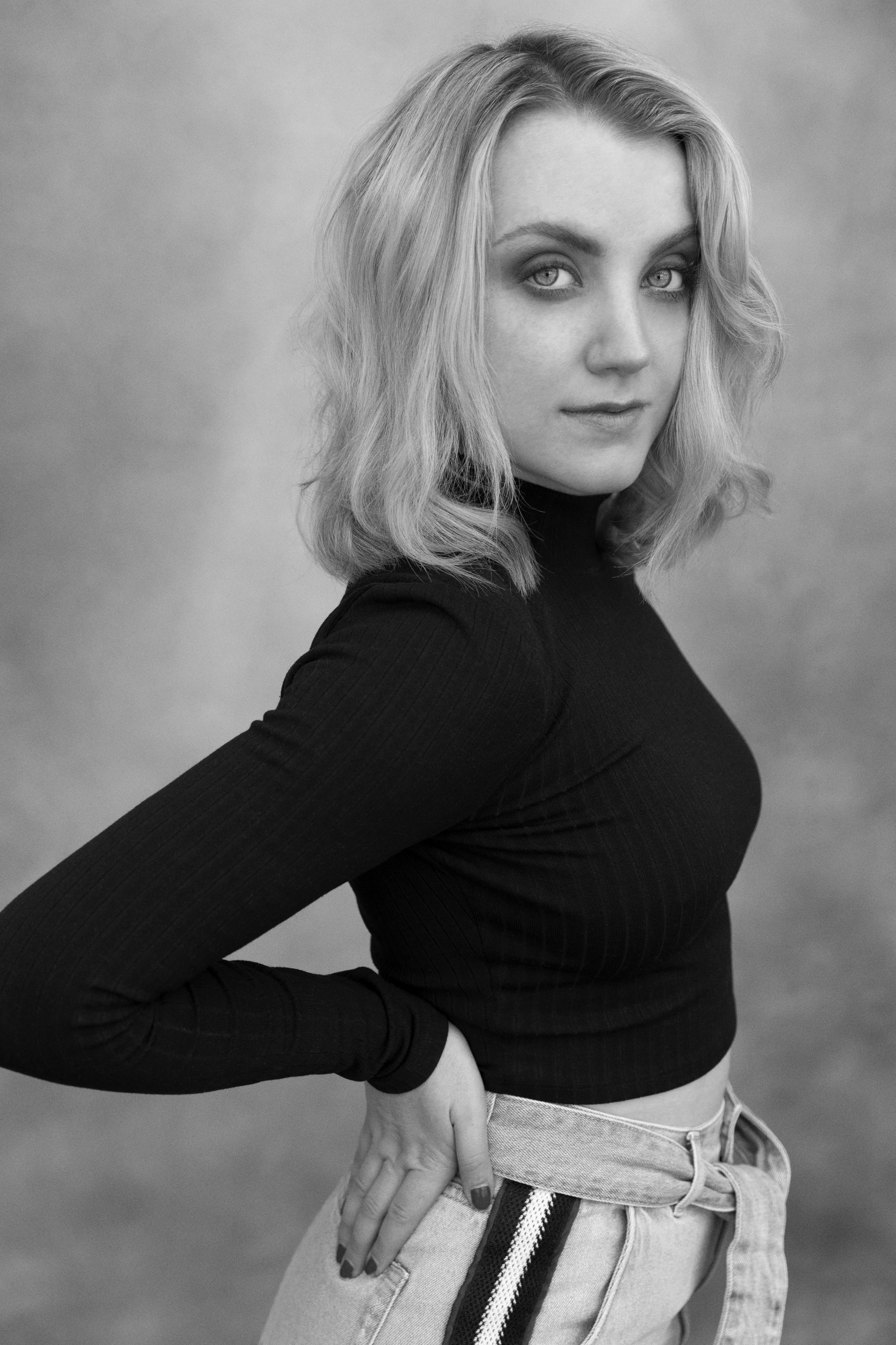 Evanna Lynch